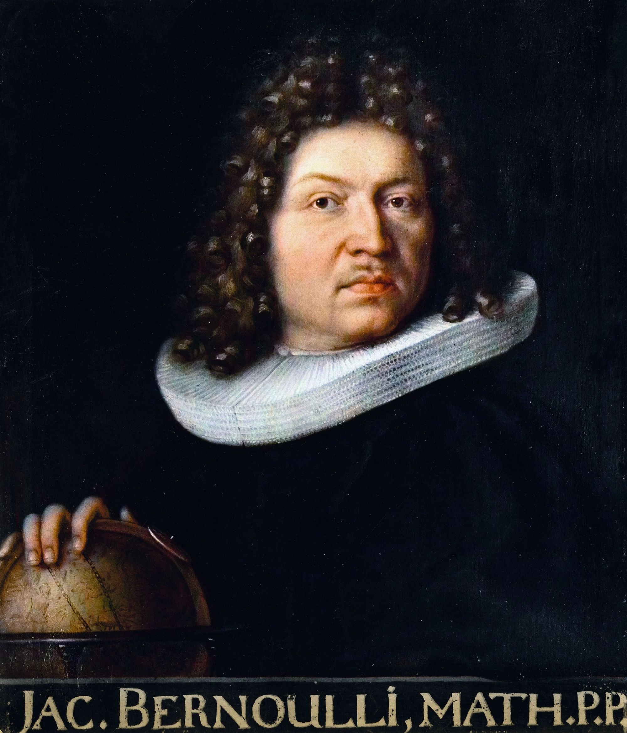 Jacob Bernoulli (also known as James or Jacques) (1654 – 1705)